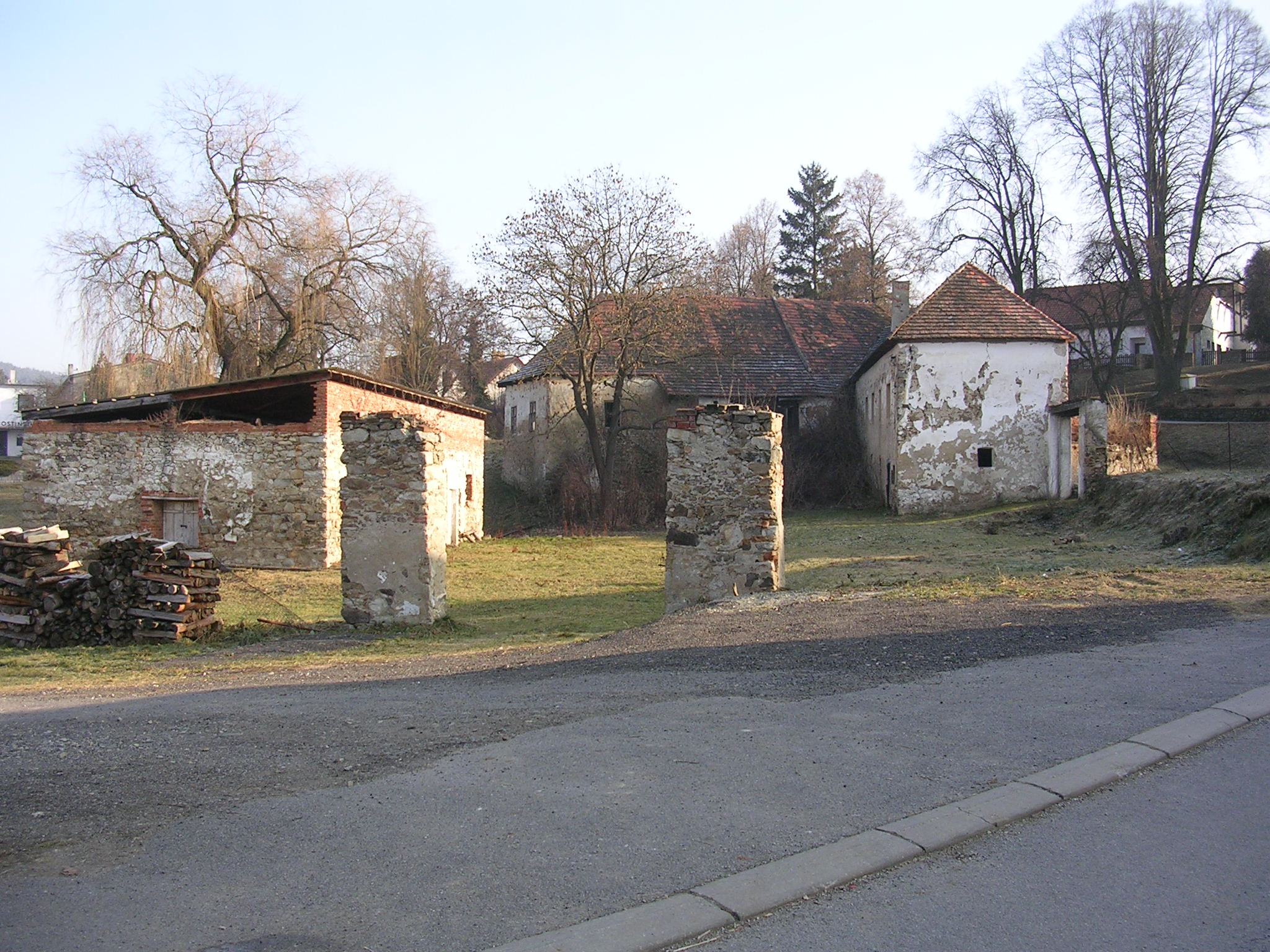 Malenice, the Czech Republic.